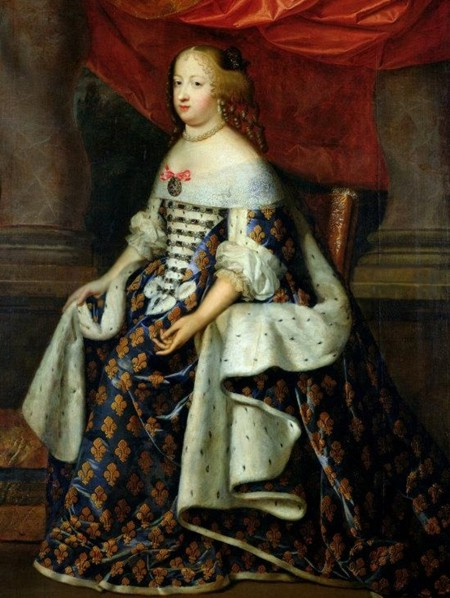 Portrait of Maria Theresa of Austria (1638-1683) as Queen of France